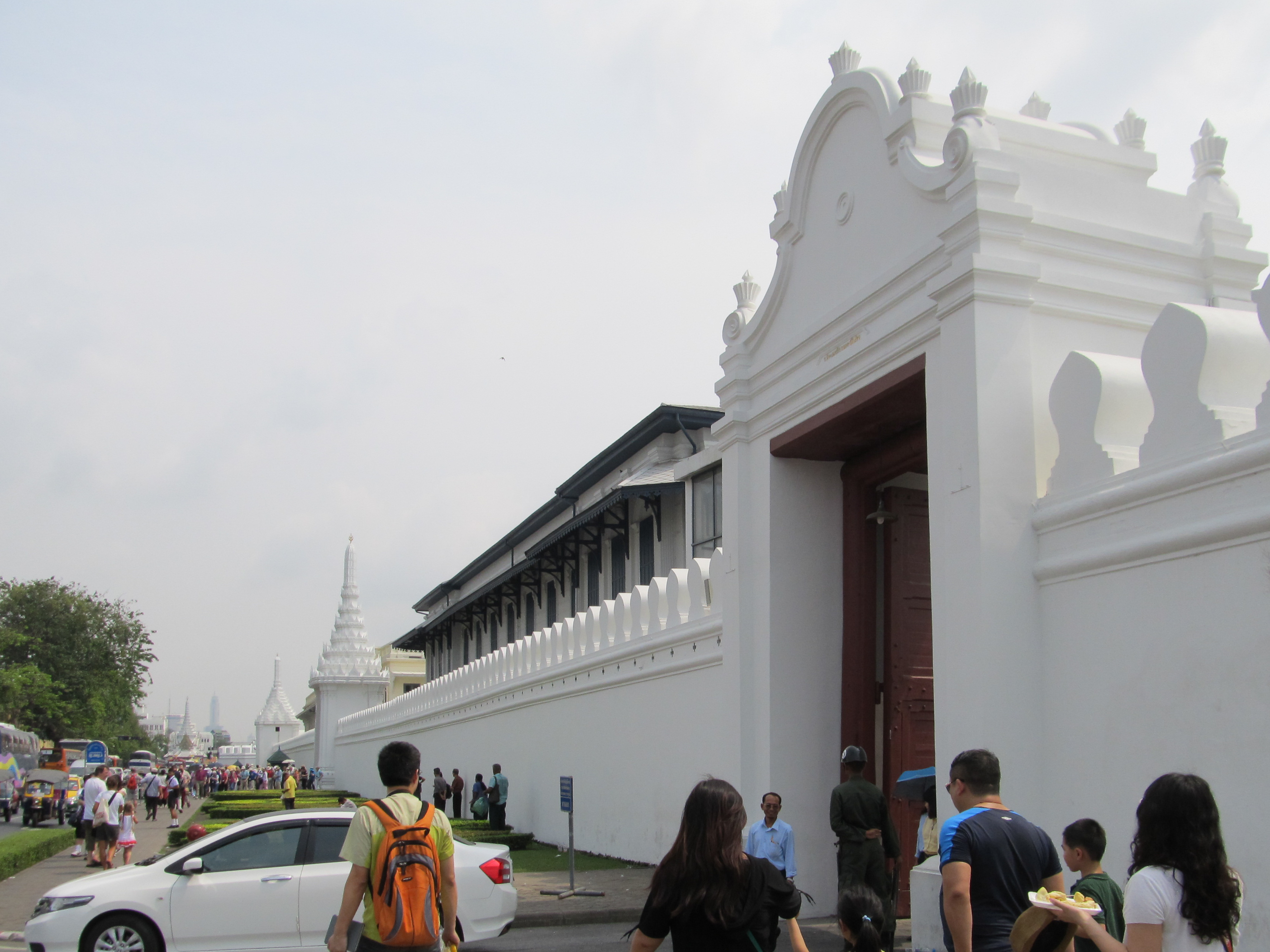 Bangkok